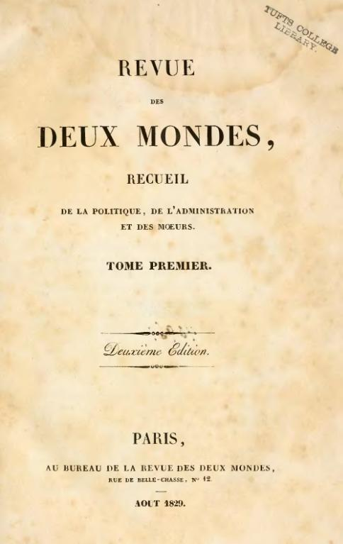 Revue des Deux Mondes, fist